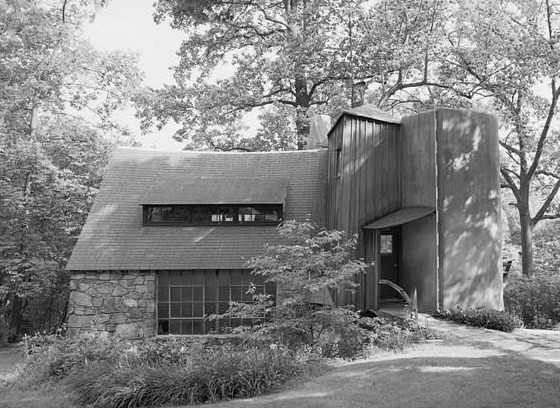 Wharton Esherick House & Studio, 1520 Horseshoe Trail, Malvern (Chester County, Pennsylvania) (cropped)